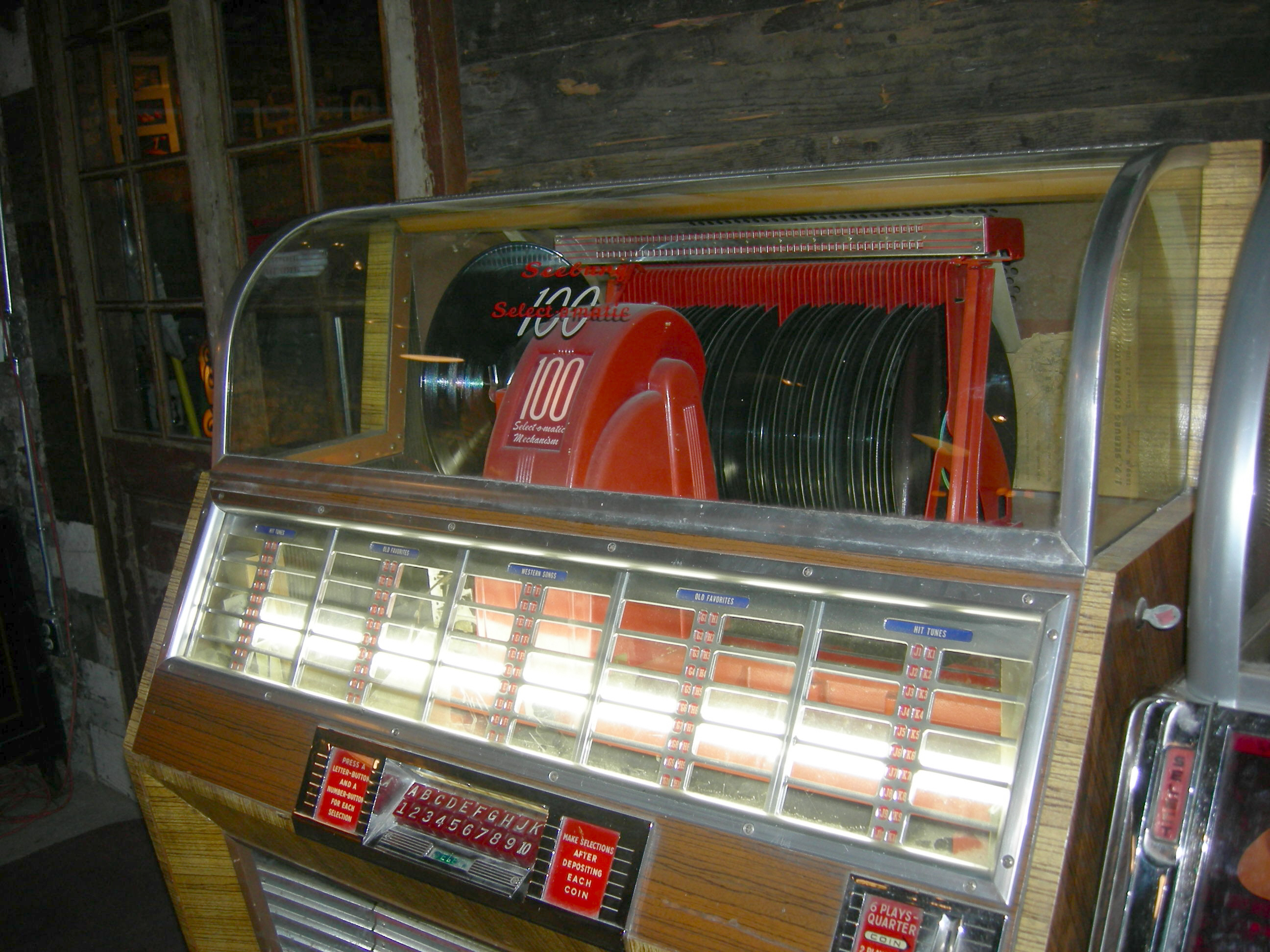 Detail, Seeburg Selecto-o-matic jukebox at "The Stables" behind Full Throttle Bottles, Georgetown, Seattle, Washington. This handles up to 100 LPs and presumably dates from the 1950s.